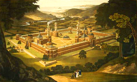 A bird's eye view of a community in New Harmony, Indiana, United States, as proposed by Robert Owen. Engraving by F. Bate, London 1838.